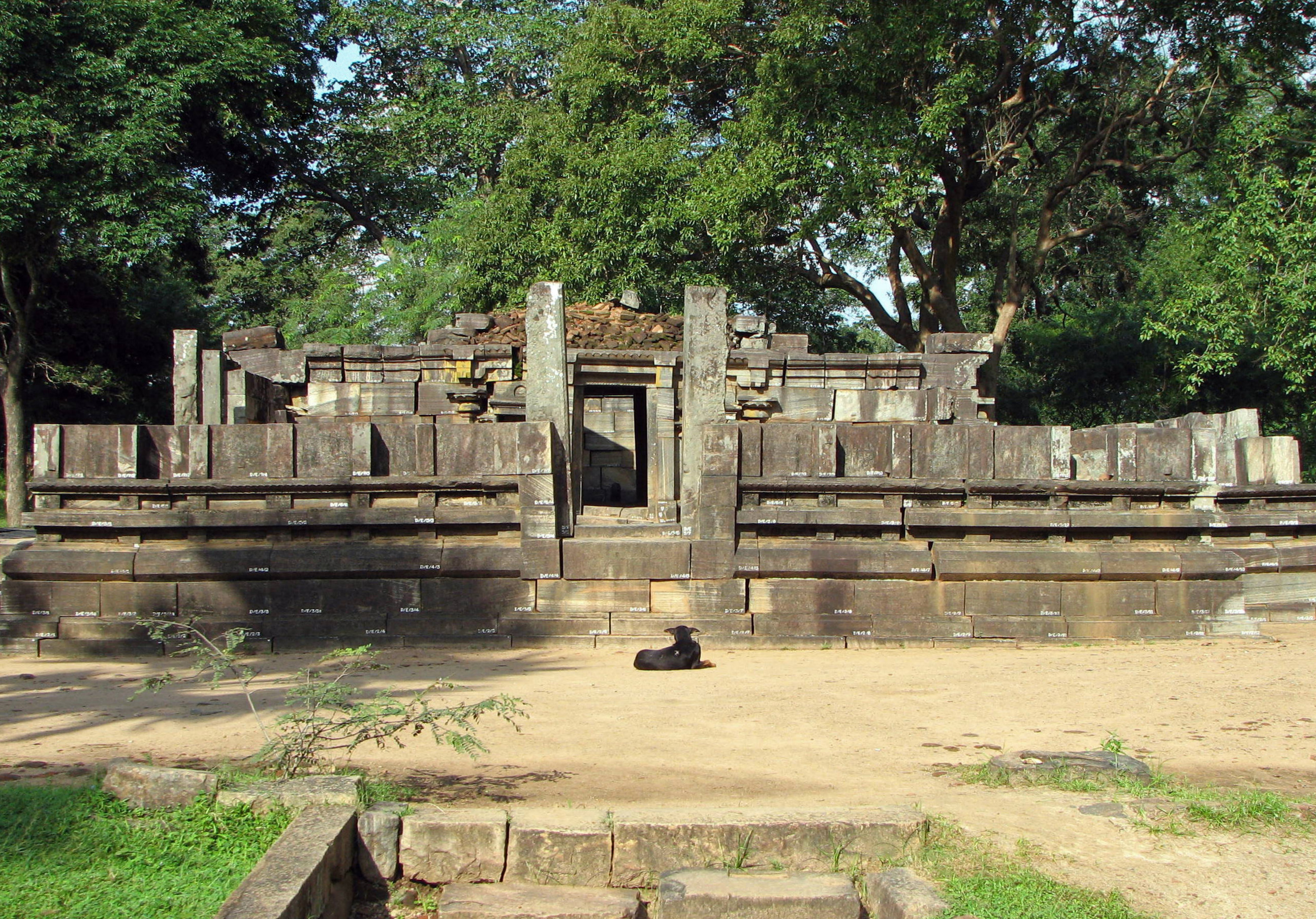 Shiva Dewalaya building, Polonnaruwa, Sri Lanka